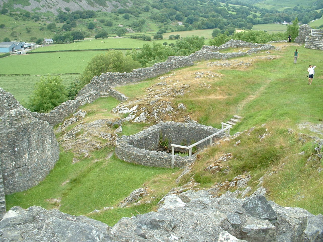 The main courtyard of Castell y Bere, Wales. Taken by Necrothesp, 28 June 2005.